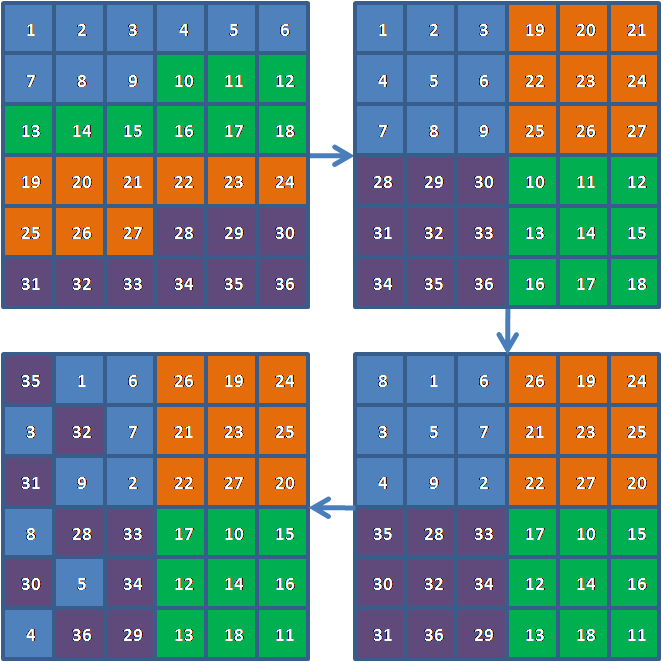 Magic square construction example of single even order.